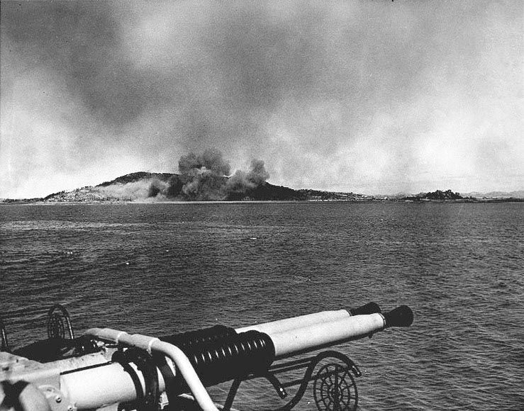 Wolmi-Do island under bombardment on 13 September 1950, two days before the landings at Inchon. Photographed from USS Lyman K. Swenson (DD-729), one of whose 40mm gun mounts is in the foreground. Sowolmi-Do island, connected to Wolmi-Do by a causeway, is at the right, with Inchon beyond.